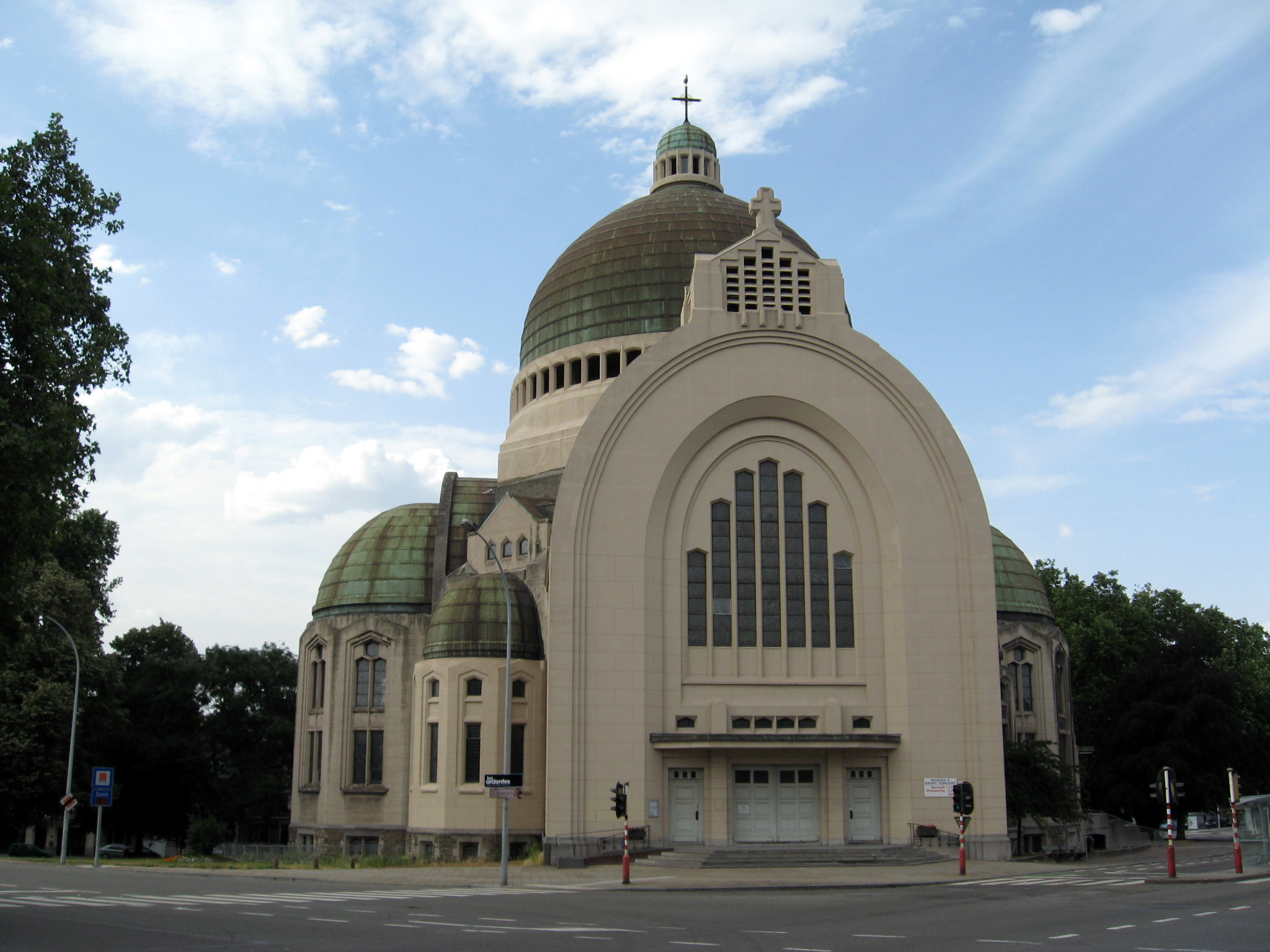 Church of Saint Vincent in Fétinne, Liège, Liège, Belgium